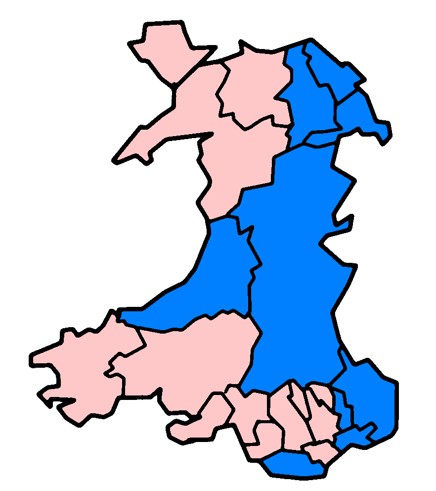 This image indicates in blue the Welsh principal areas (1996 definition) affected by the 2007 floods as of July 24th 2007. That's Ceredigion, Flintshire, Denbighshire, Wrexham, Monmouthshire, Newport, Powys, Torfaen and the Vale of Glamorgan. Apologies if left any out. Some areas with only minor damage have been omitted. To forestall criticism, citations for each and every one of these areas can be found on under "Affected areas in Wales". The light blue colour was chosen because of its natural association with water, and pink as its opposite on the colour wheel. No other meaning is implied or should be inferred.